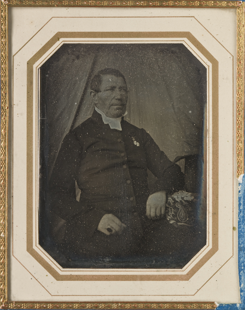 Portrait of Nils Nordlander (1796-1874). Daguerreotype, photographer unknown. Item no. 131408. Reproduction photography: Mats Landin, Nordiska museet.